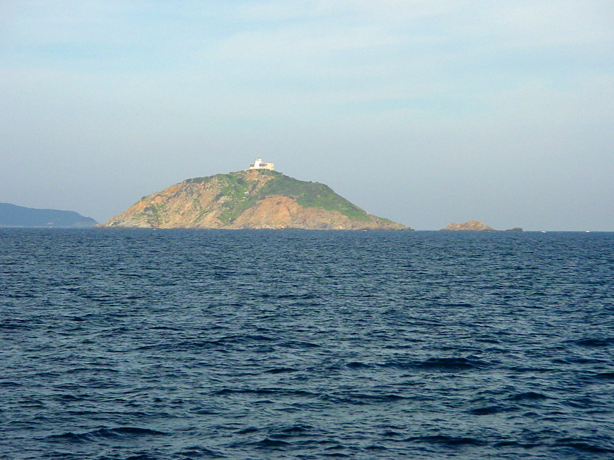 Palmaiola island, with Elba island on the left, Italy